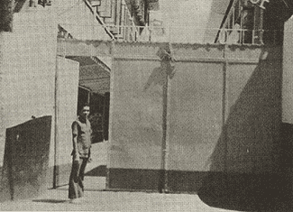 The old gate